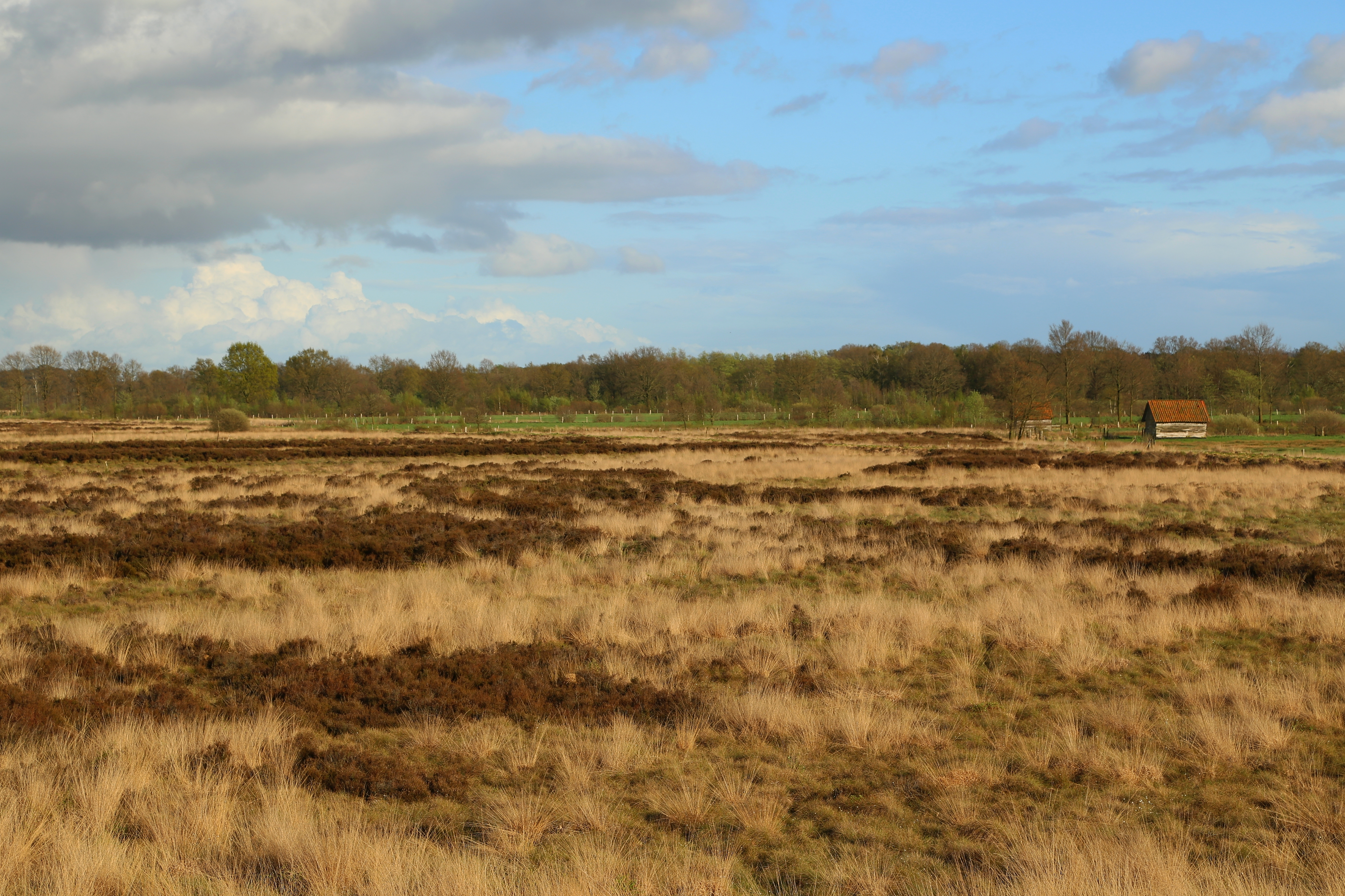 Nature reserve (Naturschutzgebiet) „Recker Moor“ in Recke, Kreis Steinfurt, North Rhine-Westphalia, Germany.